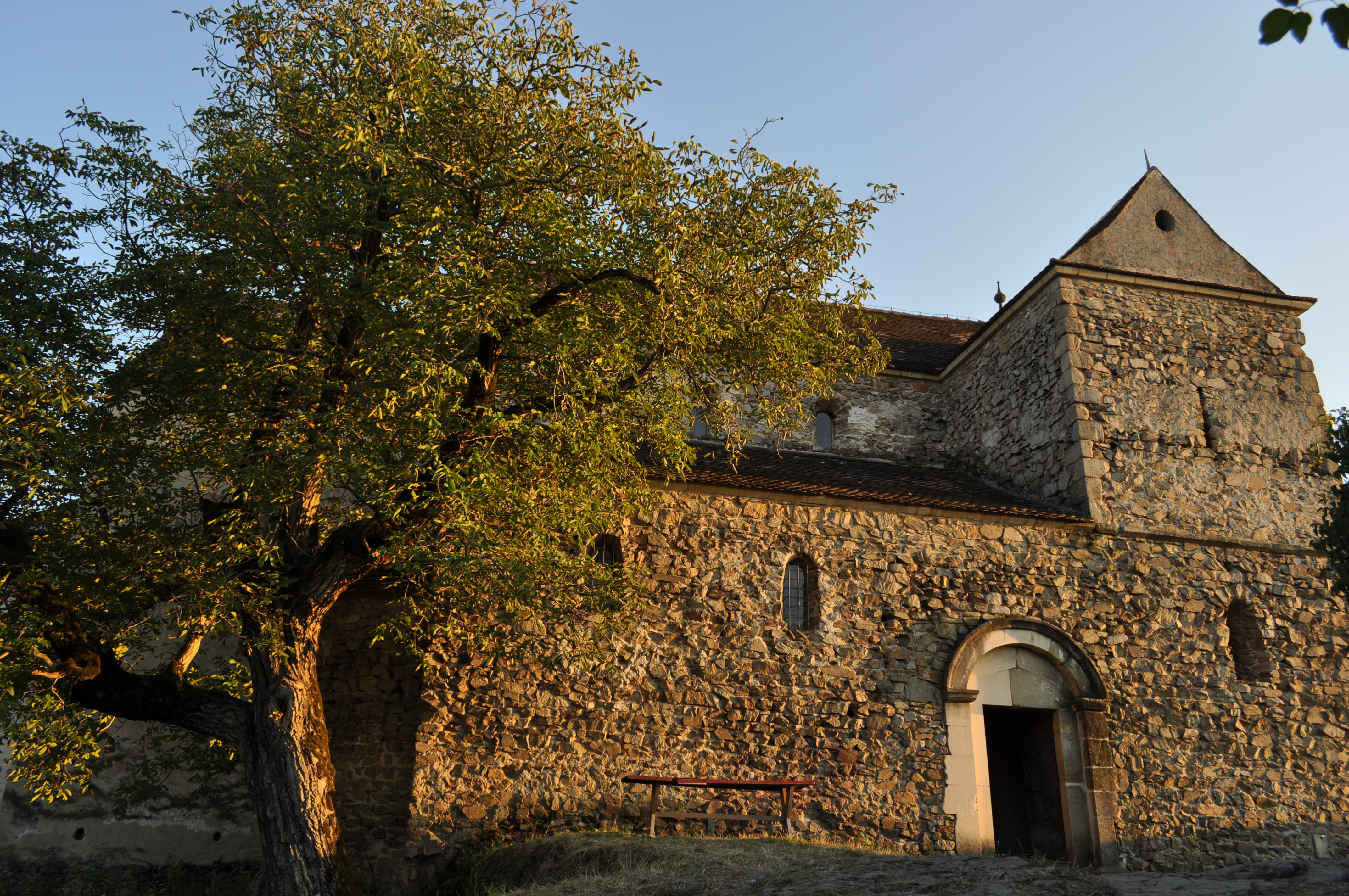 The Ensemble of The ”Saint Michael” Lutheran church in CisnădioaraRomână: Ansamblul bisericii evanghelice „Sf.Mihail” din Cisnădioara